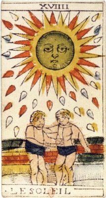 An original card from the tarot deck of Jean Dodal of Lyon, a classic Tarot of Marseilles deck which dates from 1701-1715.